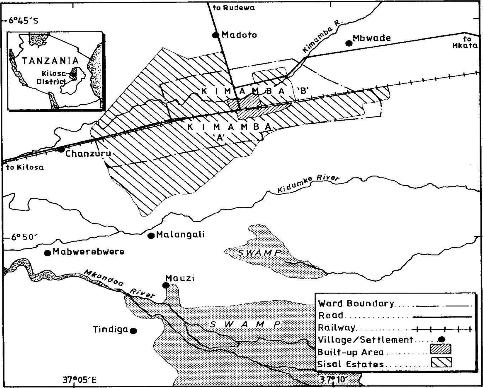 Separation of Kimamba Division (in Kimamba 'A' and 'B' Section).